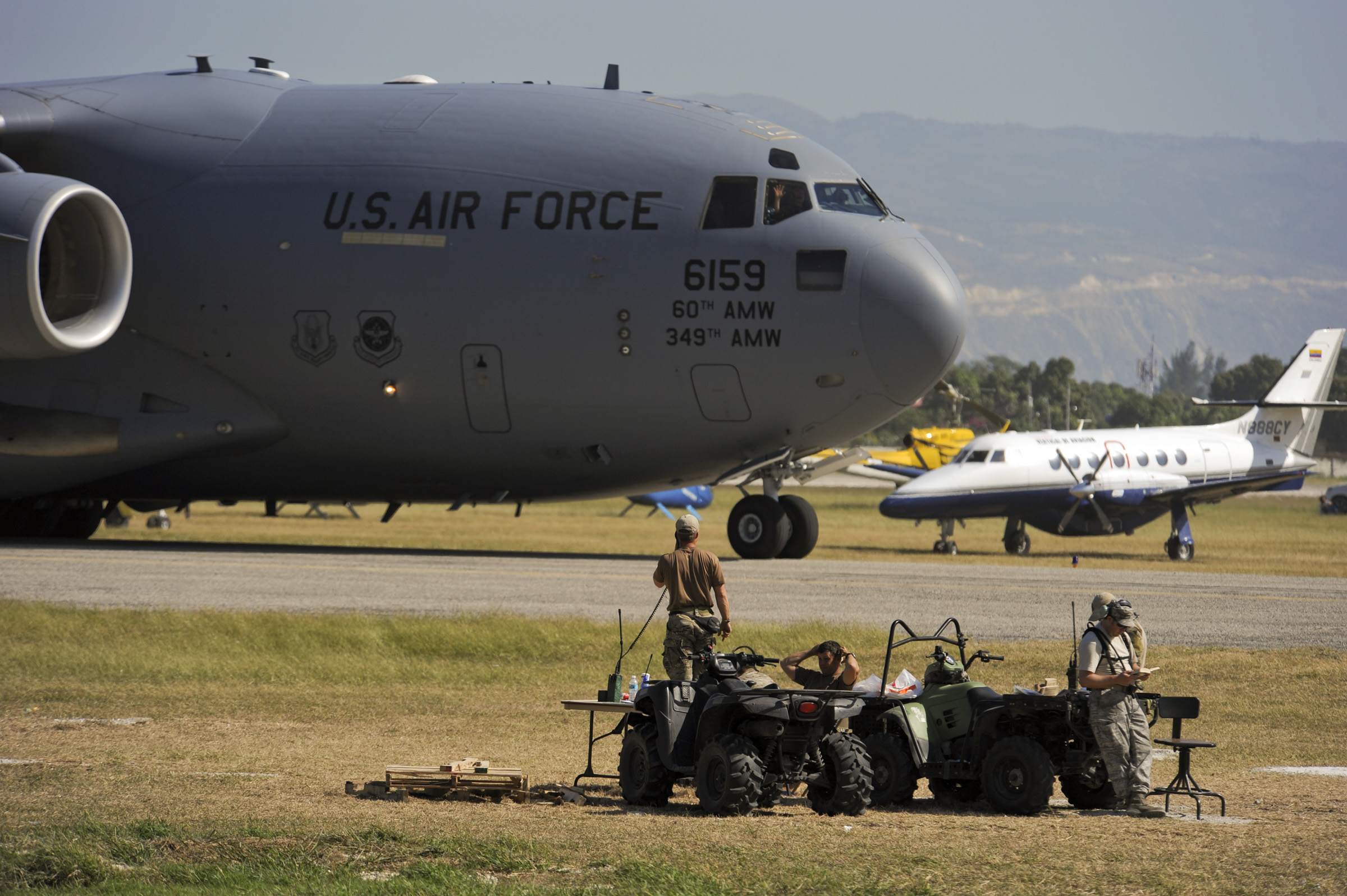 Combat controllers guide a cargo aircraft from Travis Air Force Base, California, into Toussaint L'Ouverture International Airport in Port-au-Prince, Haiti, January 23, 2010. The Airmen are from the 23d Special Tactics Squadron at Hurlburt Field, Florida. In the initial days of Operation Unified Response air operations were similar to the Berlin Airlift with aircraft landing every five minutes.